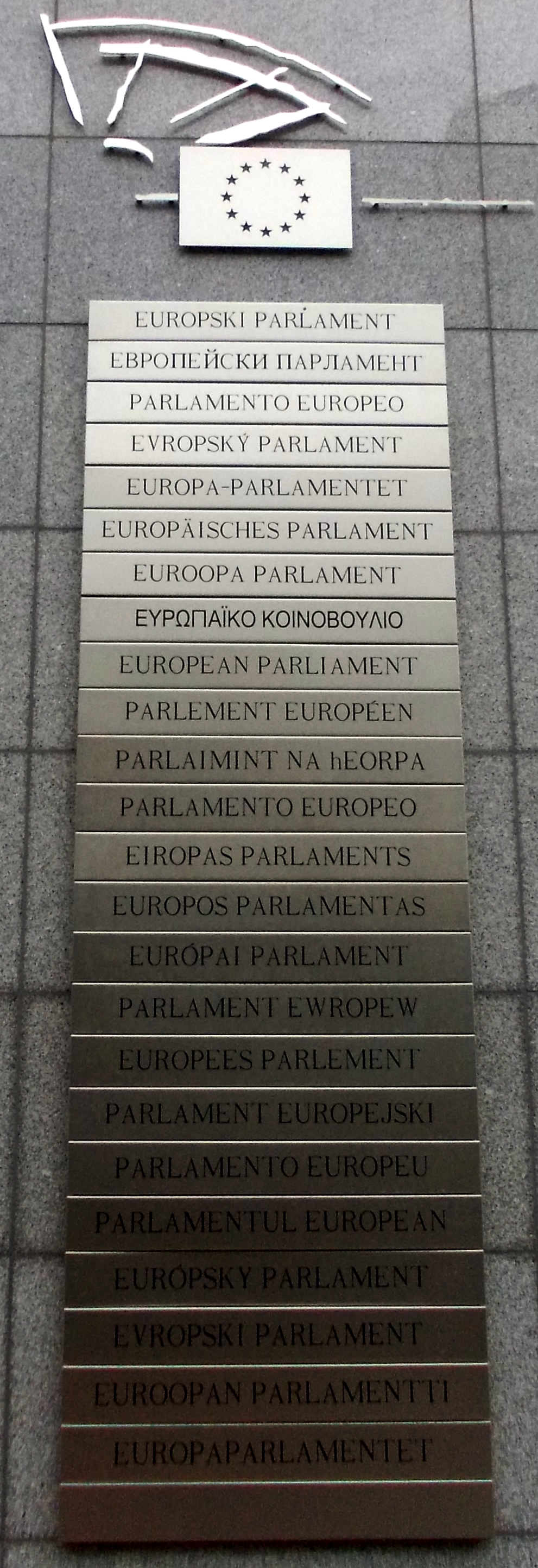 "European Parliament" in official languages of the European Union (on the Parliament building in Brussels)